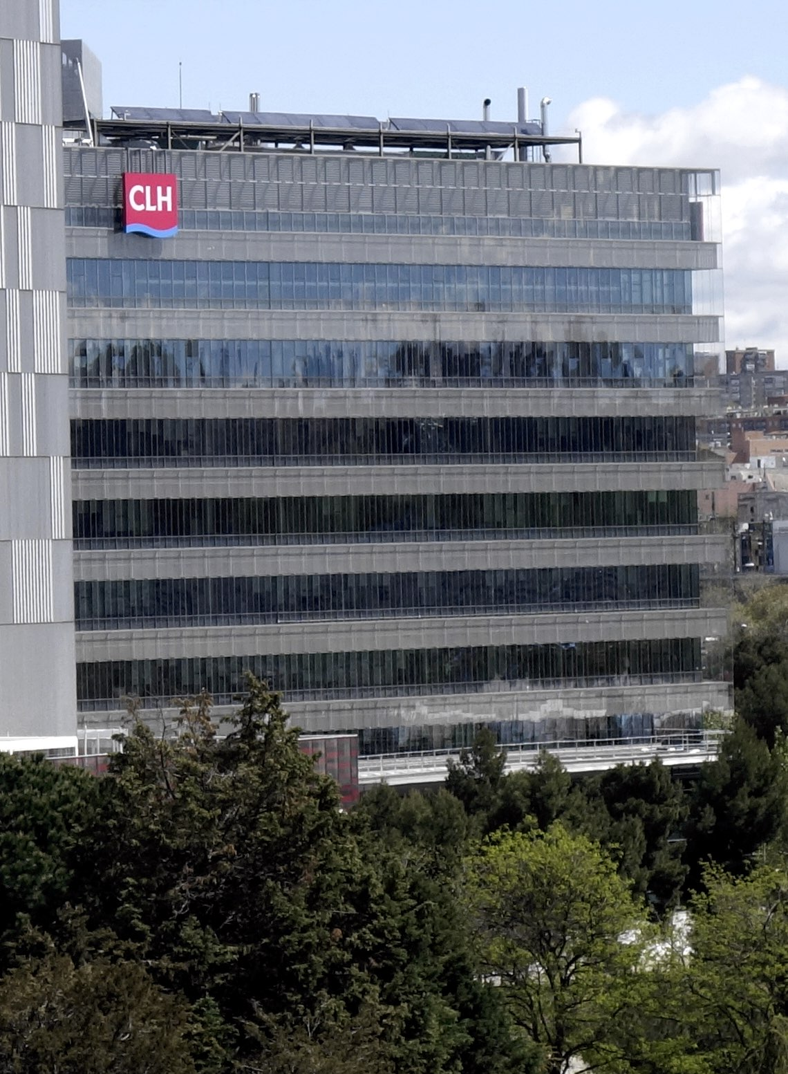 CLH Headquarters in Madrid